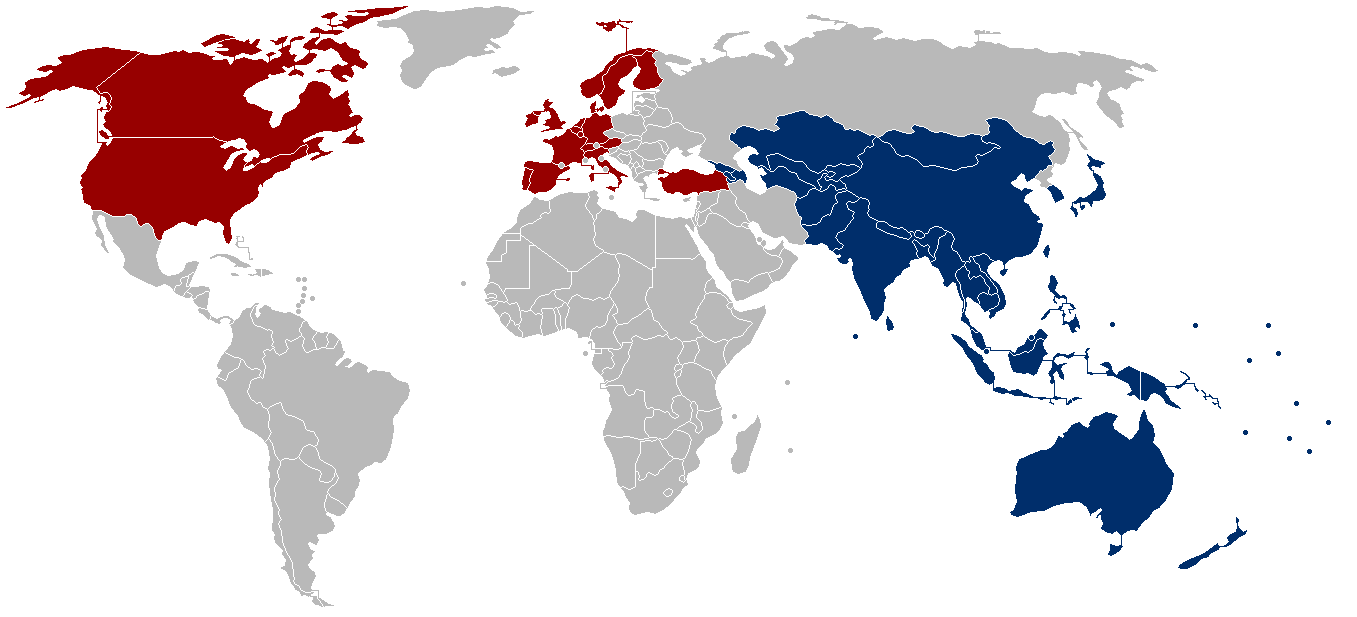 map of Asian Development Bank members (Regional members in blue, non-regional members in red; based on Image:No colonies blank world map.png